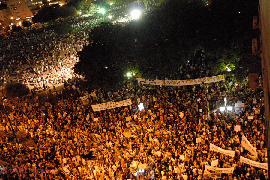 Over 450,000 protesters attended rallies across the country last night calling for social justice in what was the largest demonstration in Israeli history. The main protest took place in Tel Aviv's Kikar Hamedina, where some 300,000 people gathered after marching from Habima Square about two kilometers away. Protest leader Yonatan Levy said the atmosphere was like "a second Independence Day." from